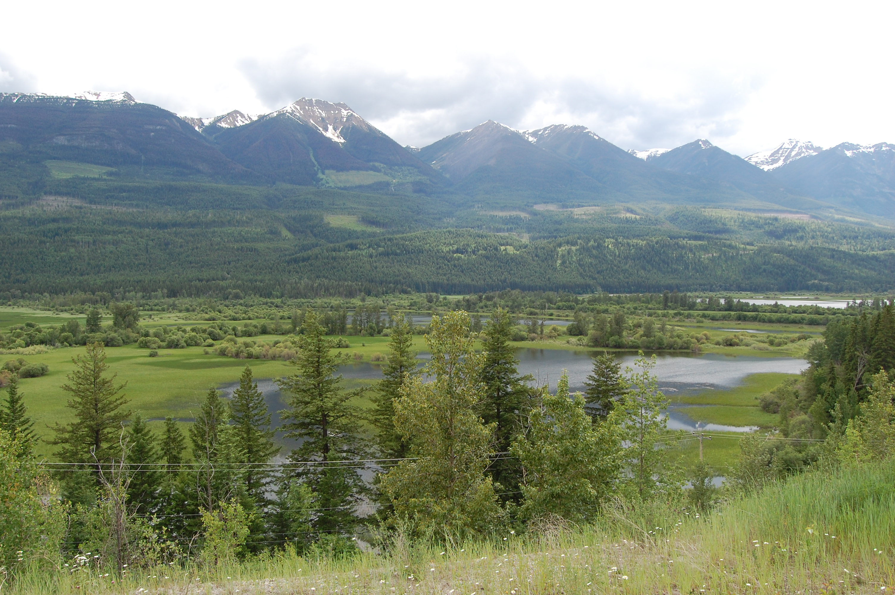 Picture of the Columbia Wetlands taken from highway 95 south of Golden, BC, Canada